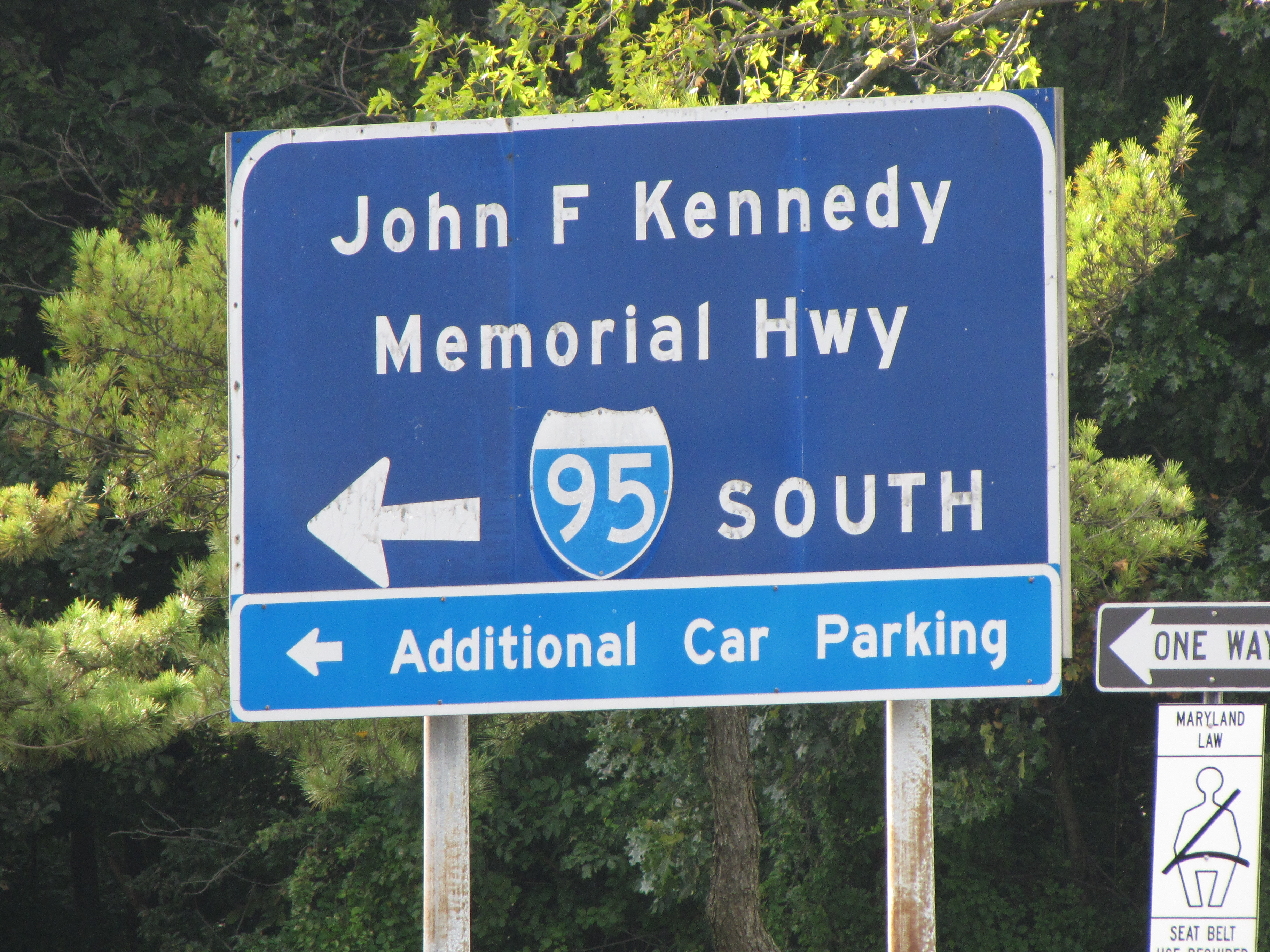 Sign naming Interstate 95 in Maryland as the John F. Kennedy Memorial Highway, at the Maryland House service plaza north of Baltimore.